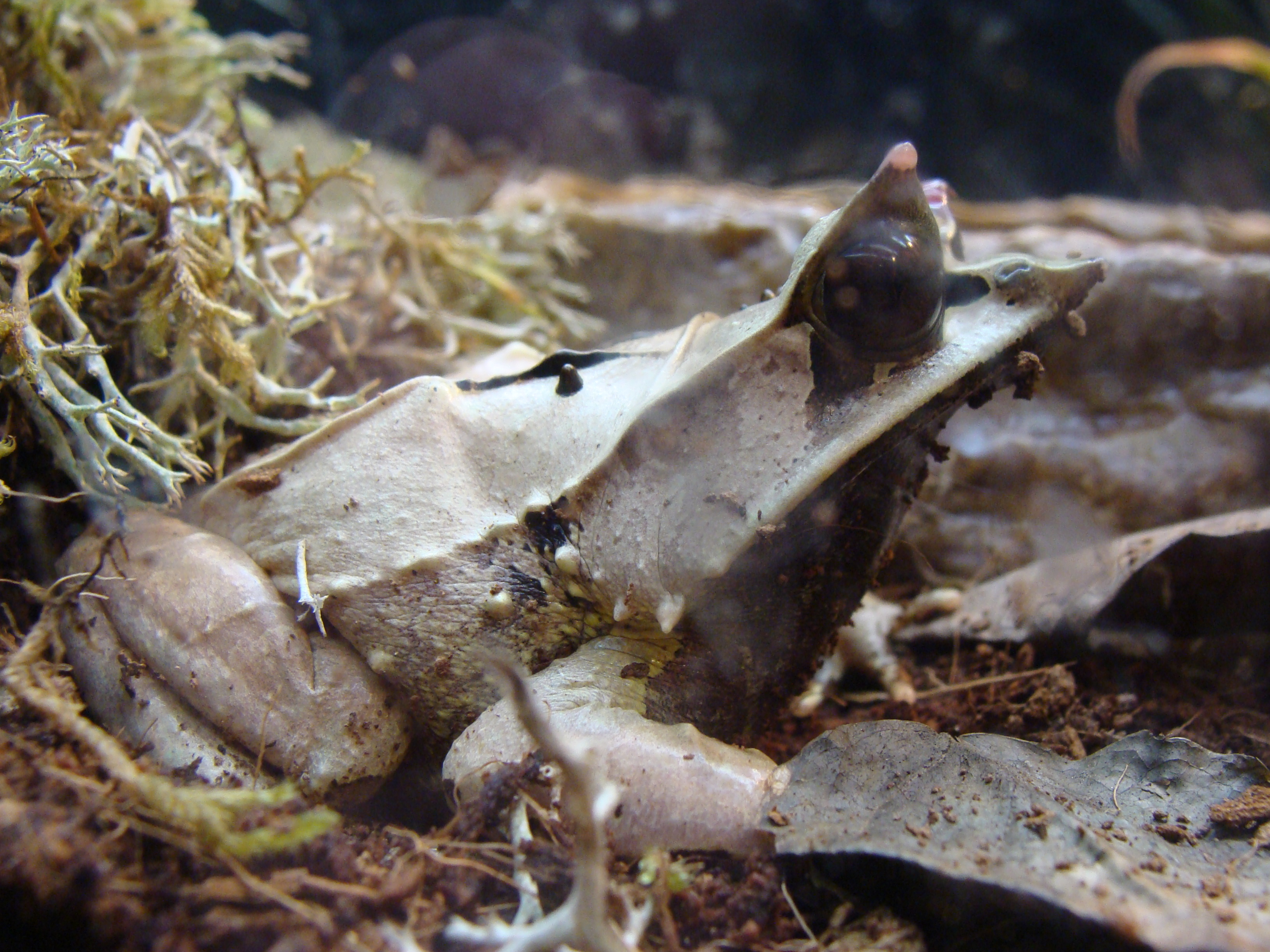 Megophrys nasuta (Long-nosed Horned Frog) in the House of the Sciences), in Corunna, Galicia, Spain